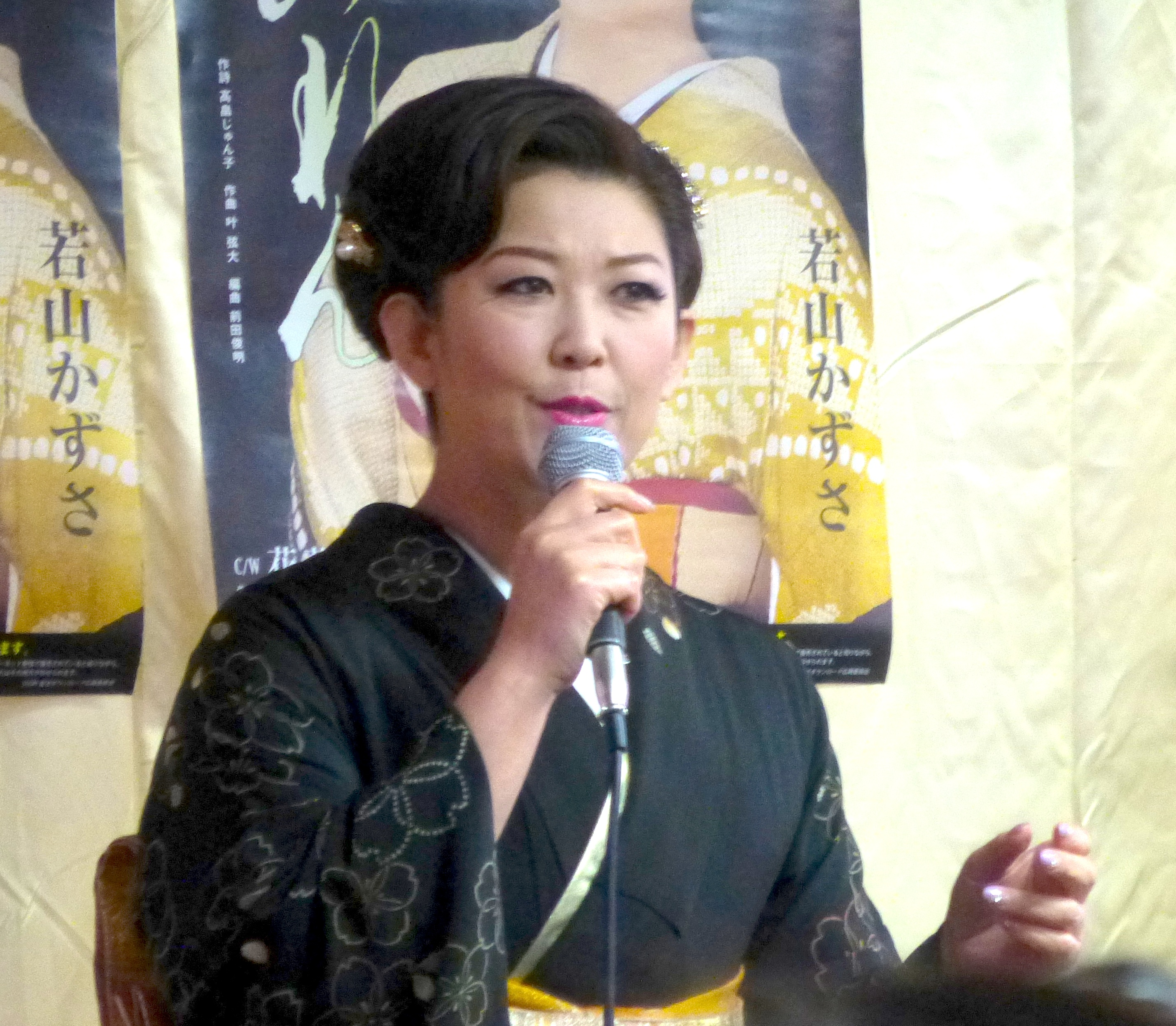 Kazusa Wakayama, enka singer.